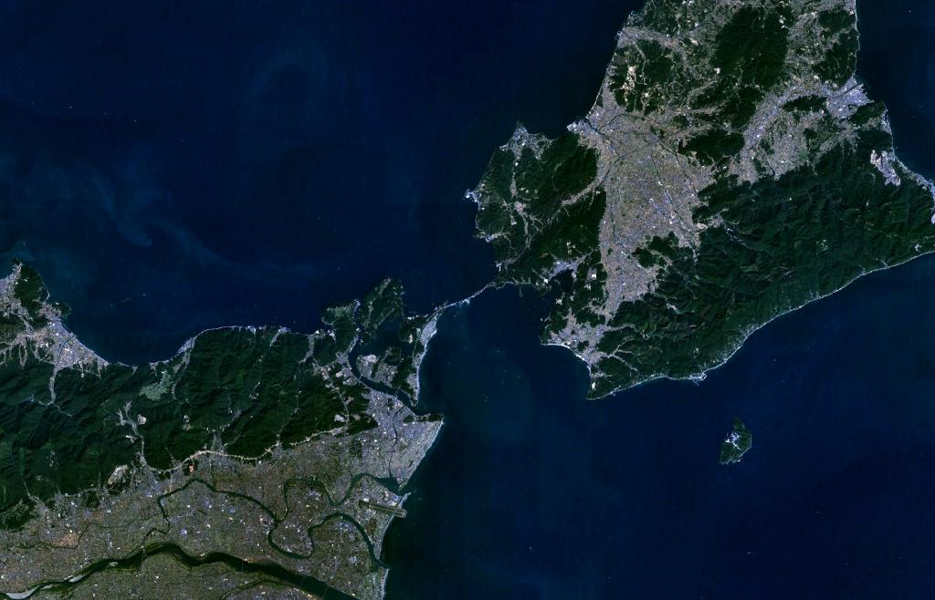 Naruto strait as seen from space. There seems to be an outflow from the upper right to the lower left.